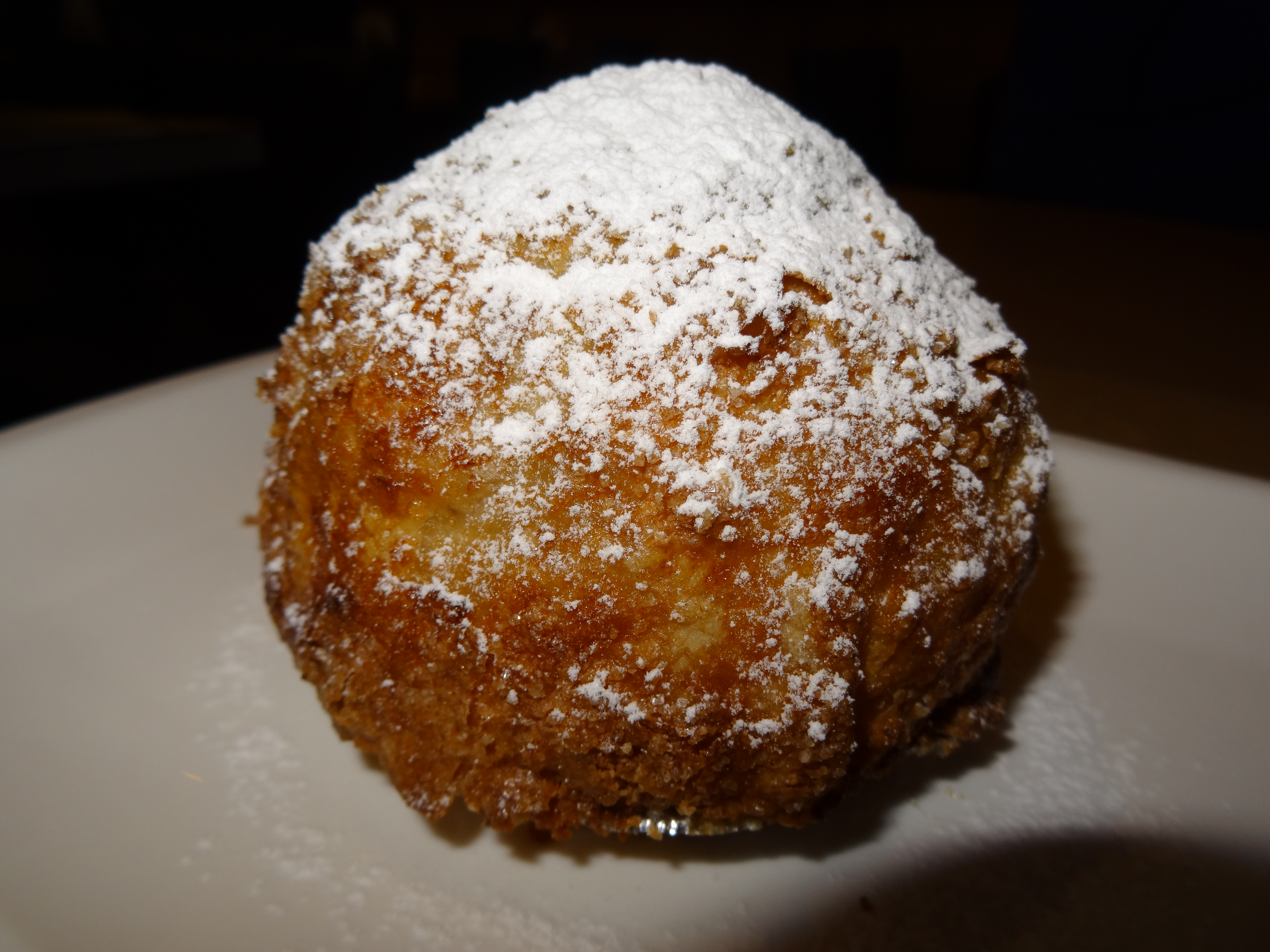 Appelbol – a traditional Dutch pastry: a whole apple, after removing the the core and pips, is stuffed with sugar and cinnamon and eventually raisins, wrapped in puff pastry and baked.